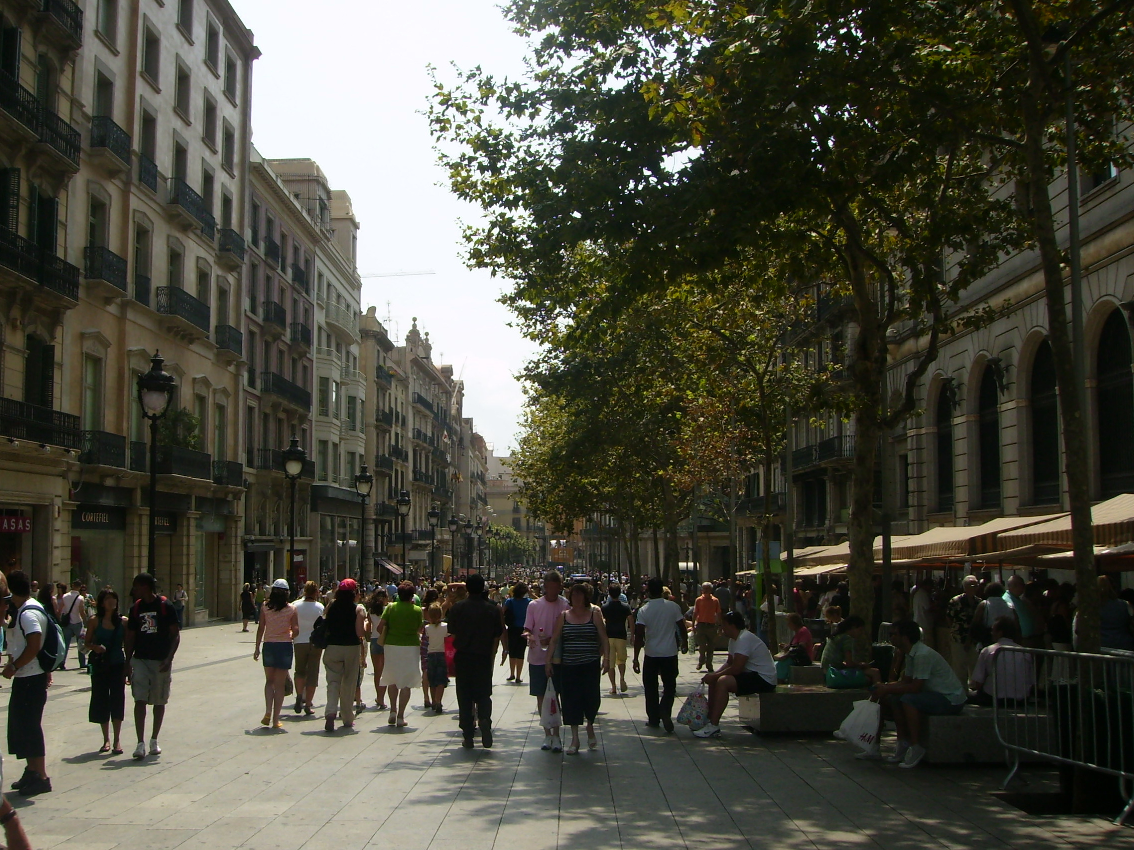 Portal de l'Àngel in Barcelona (Catalonia)